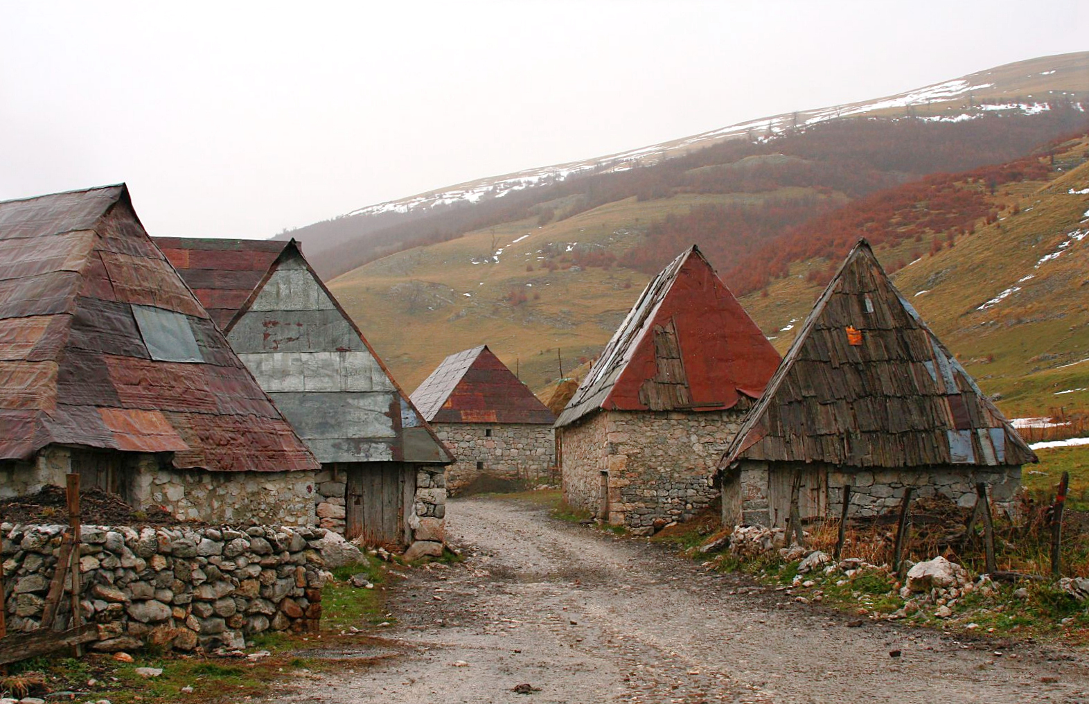 "The highland village of Lukomir is perhaps the finest example of the highland villages. It is the HIGHEST and MOST ISOLATED [emphasis mine] permanent settlement in the country at 1,469 m (4,500 ft.). The traditional architecture of the village has been deemed by the Historical Architecture Society of the United Kingdom as one of the last remaining functional villages in all of Europe. The stone homes with cherrywood roof shingles mark a practice that can no longer be found on Bjela?nica." ~Bradt Tour Guide~